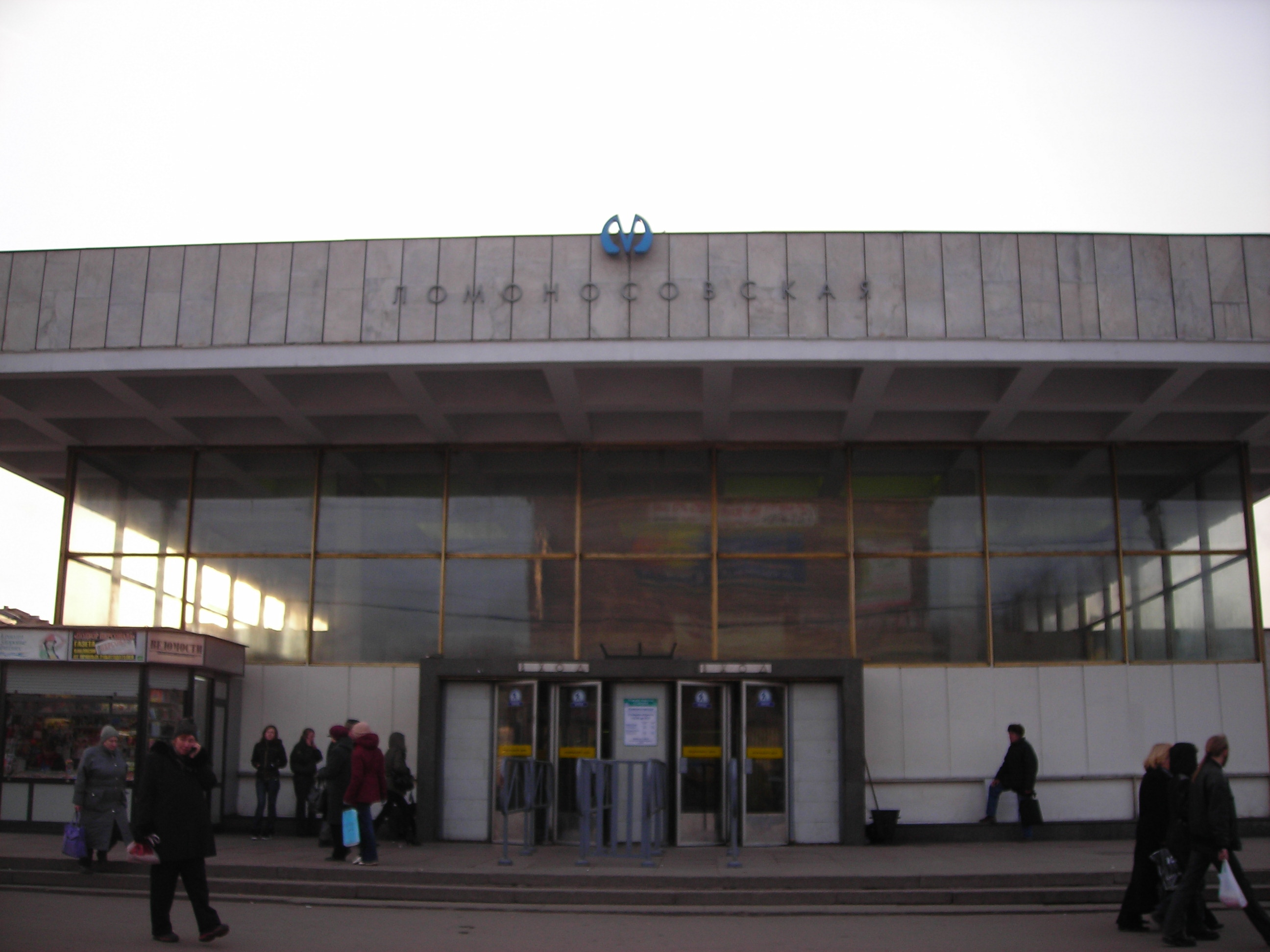 Pavilion of metrostation «Lomonosovskaya», Spb